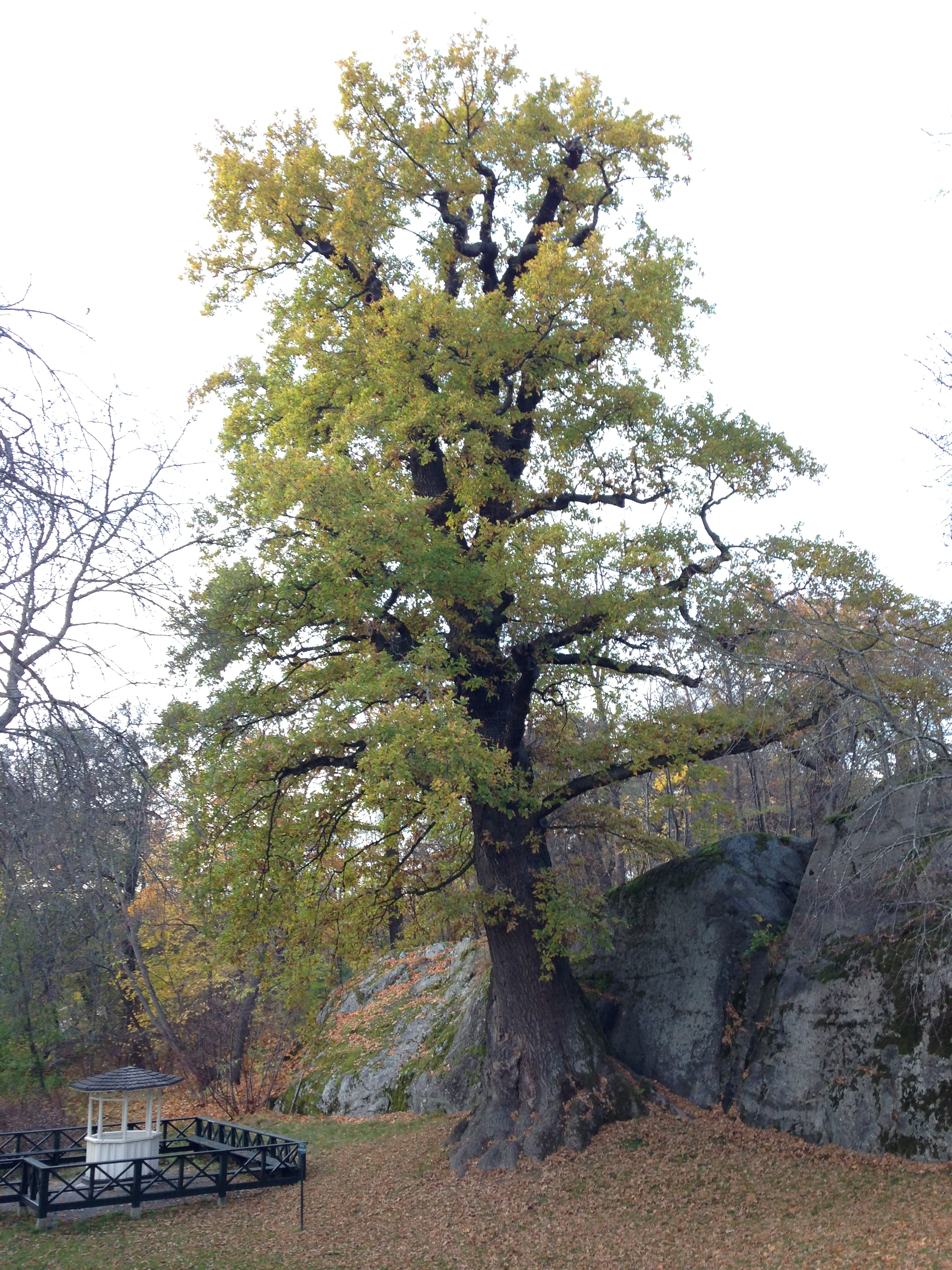 Prins Eugens oak at Waldermarsudde, october 2013